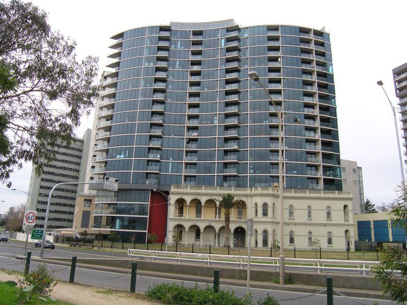 Mansion Today